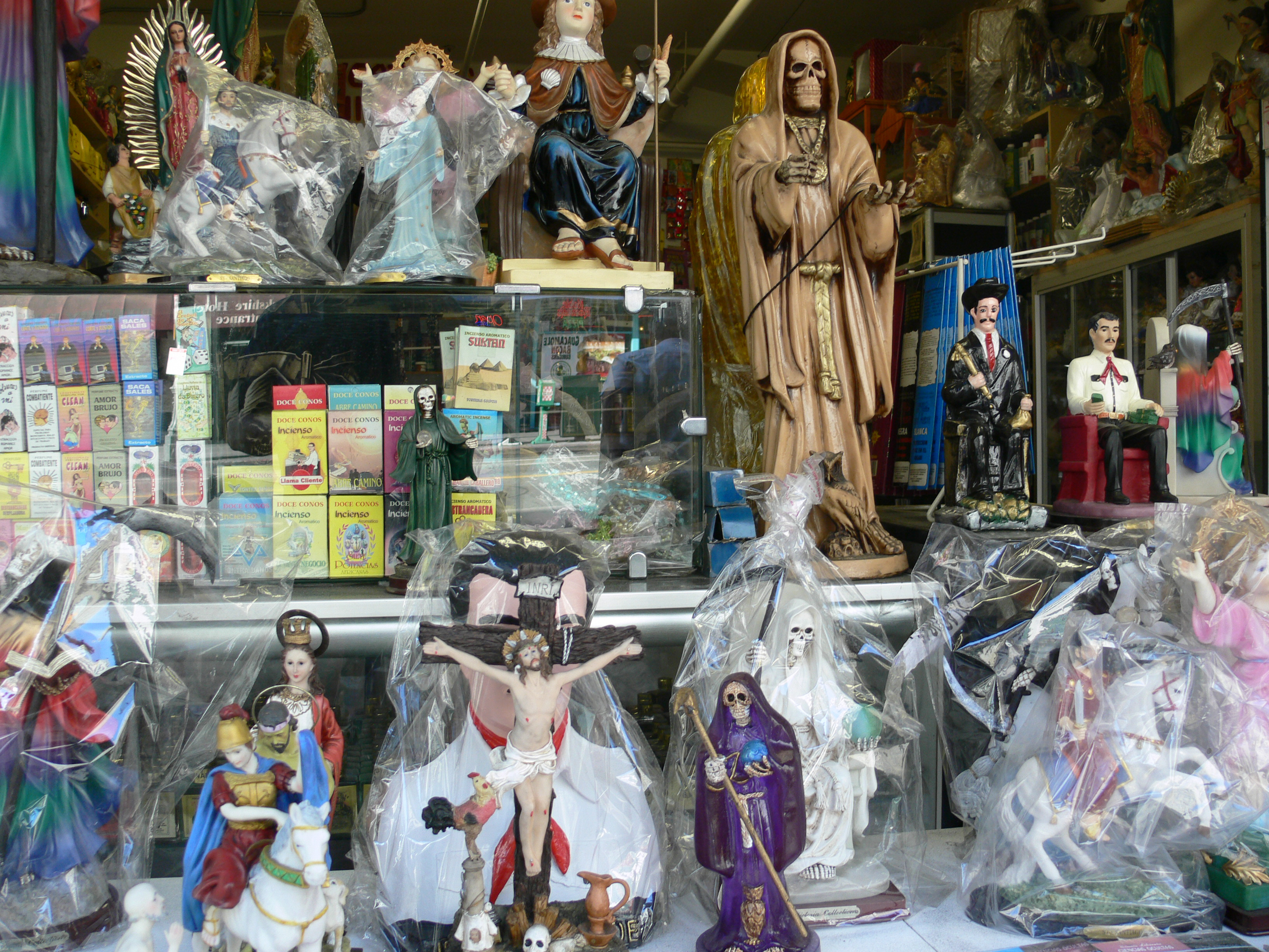 Mexican folklore and kitsch objects (including Santa Muerte statues) on sale at a shop on Broadway in downtown Los Angeles